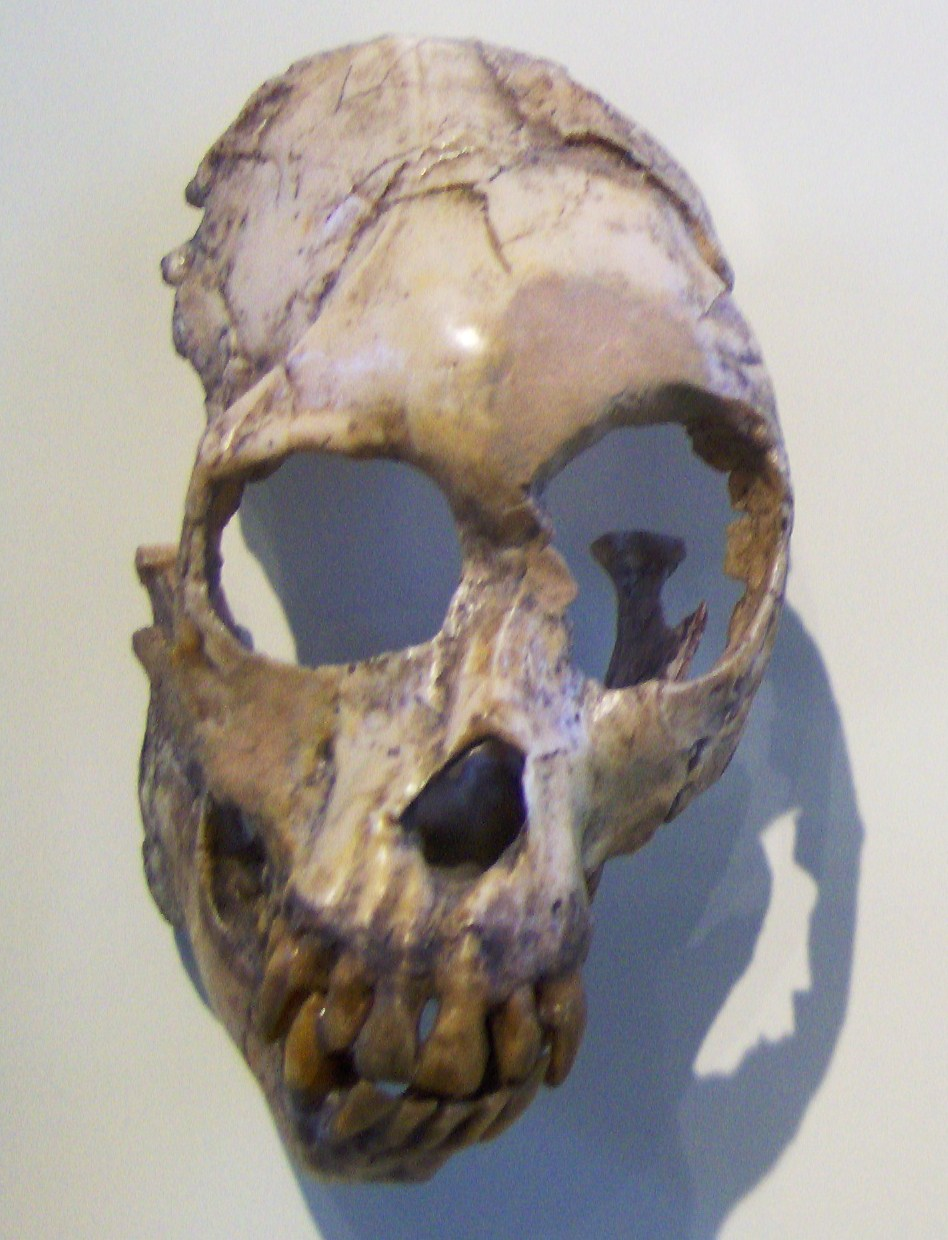 Proconsul africanus. Natural History Museum, London. KNM RU 7920. Age about 18 miljon years. Rusinga Island, Kenya. The original in Kenya National Museum, Nairobi.